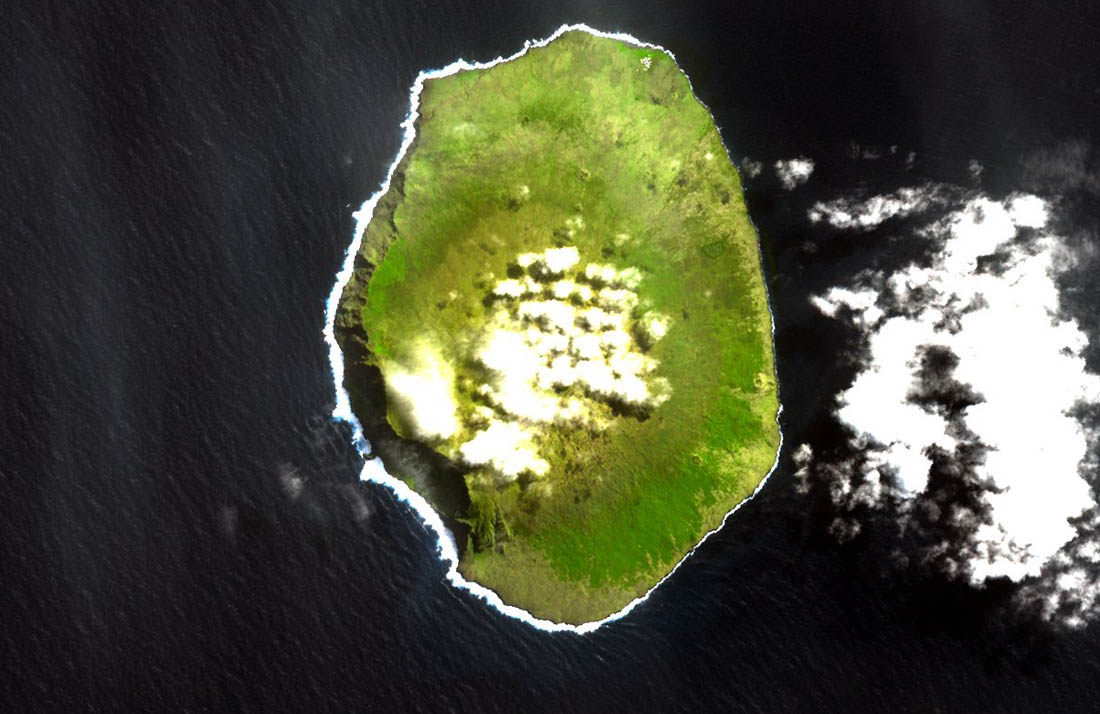 NASA Terra ASTER image of Amsterdam Island in the Southern Indian Ocean